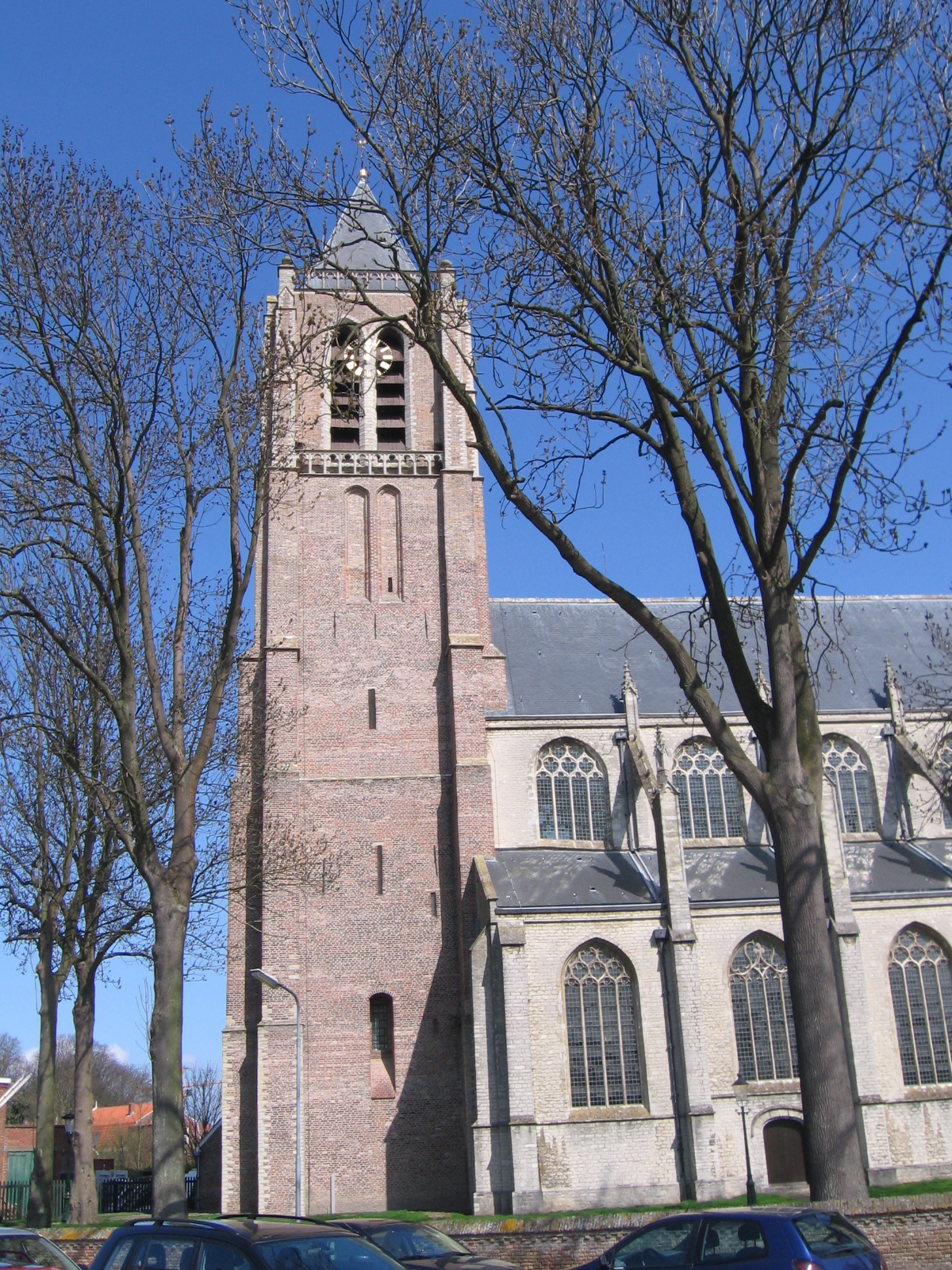 Tholen